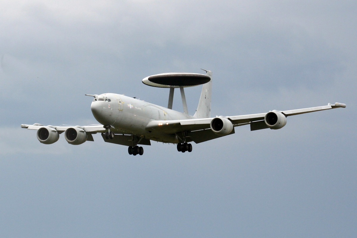 Boeing E-3D Sentry RAF ZH101 C/N 24109